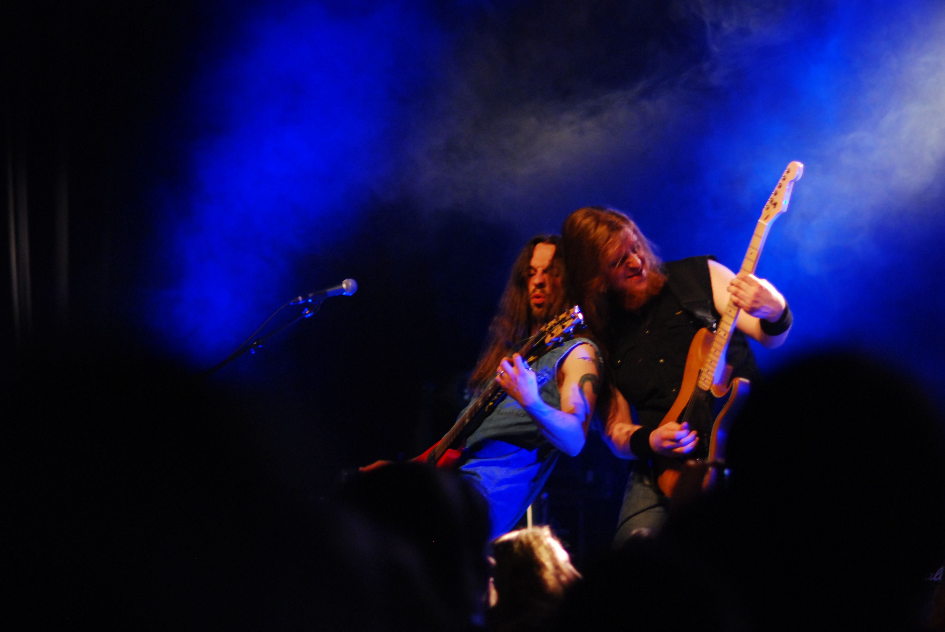 German power metal music group Seventh Avenue live at Elements of Rock 2008, Switzerland.